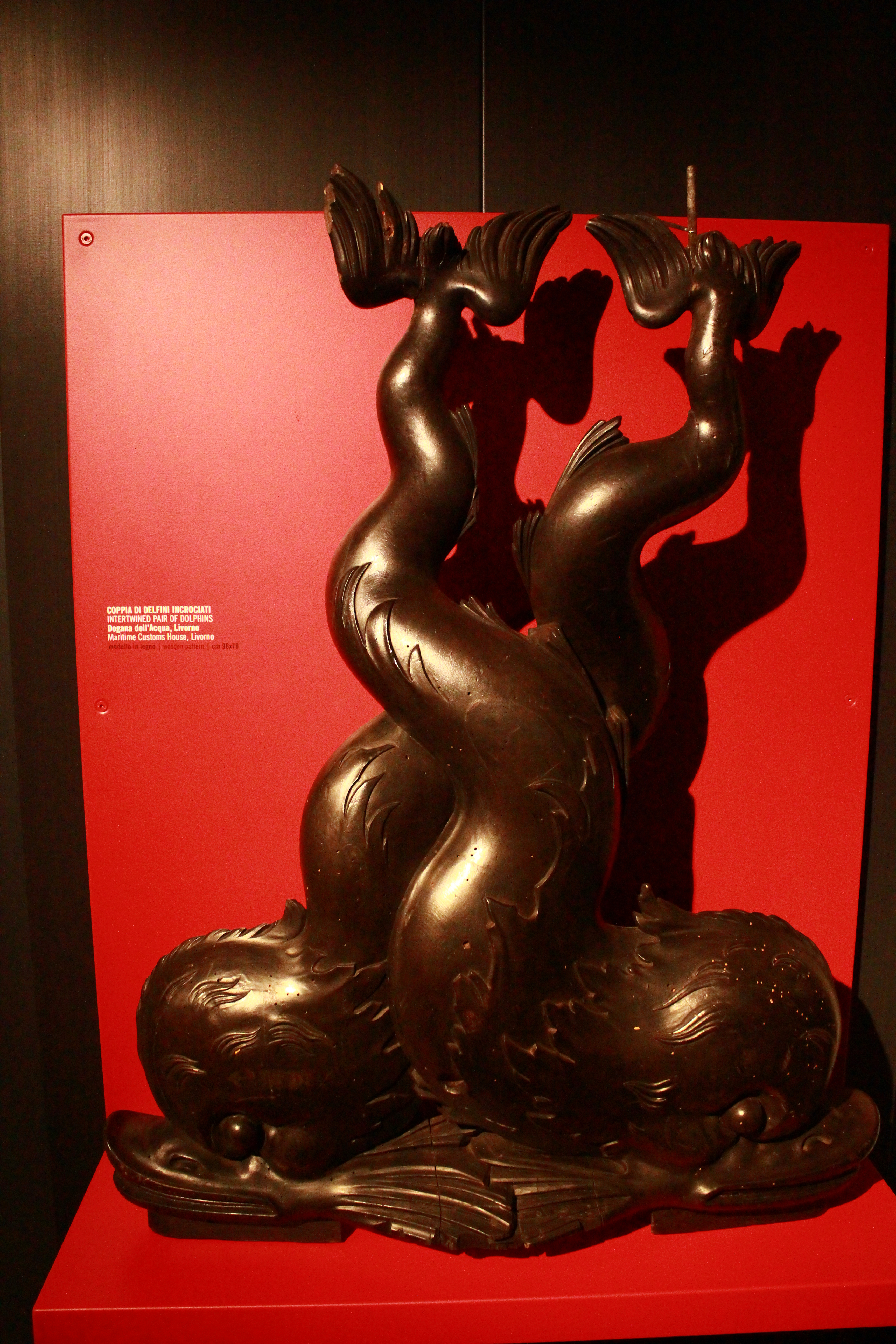 MAGMA Follonica